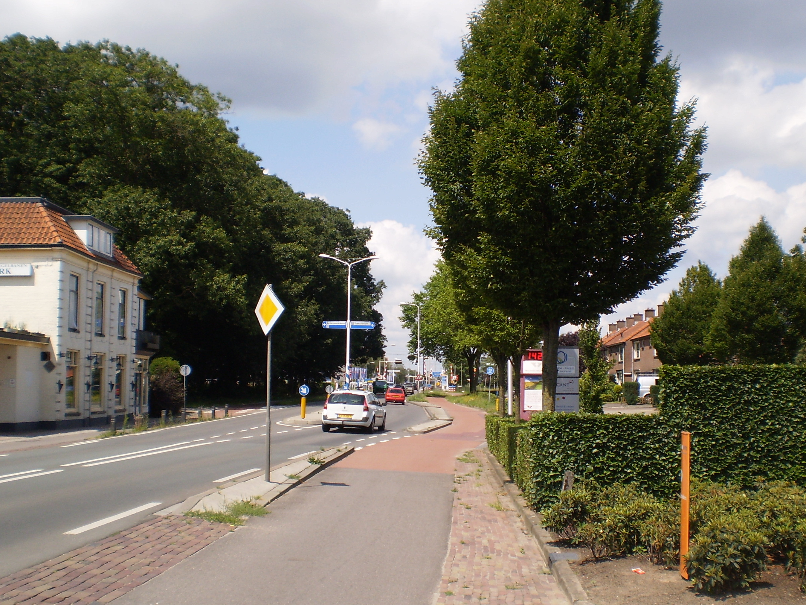 Residential part of Harselaar, Barneveld